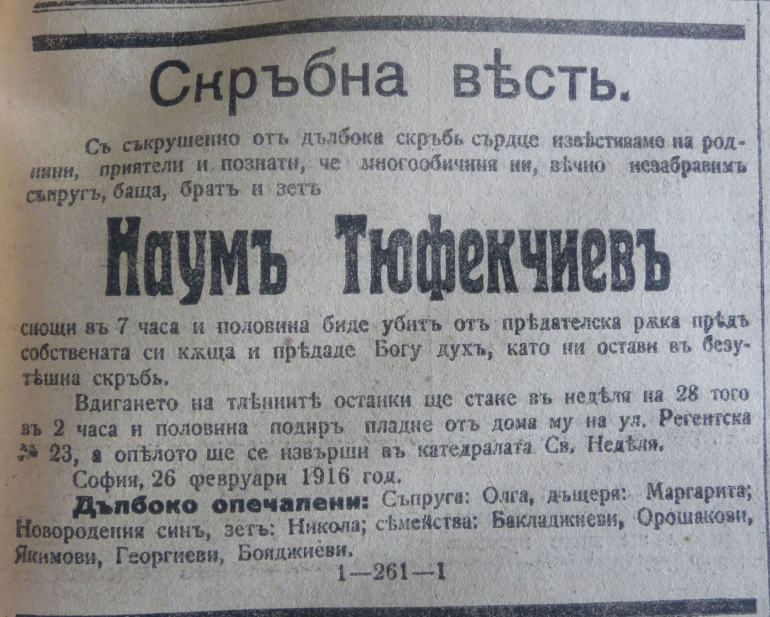 A necrologue for murdured Naum Tyufekchiev published in "Mir" newspaper, Sofia (N 4808, 28.02.1916), by his family and relatives.